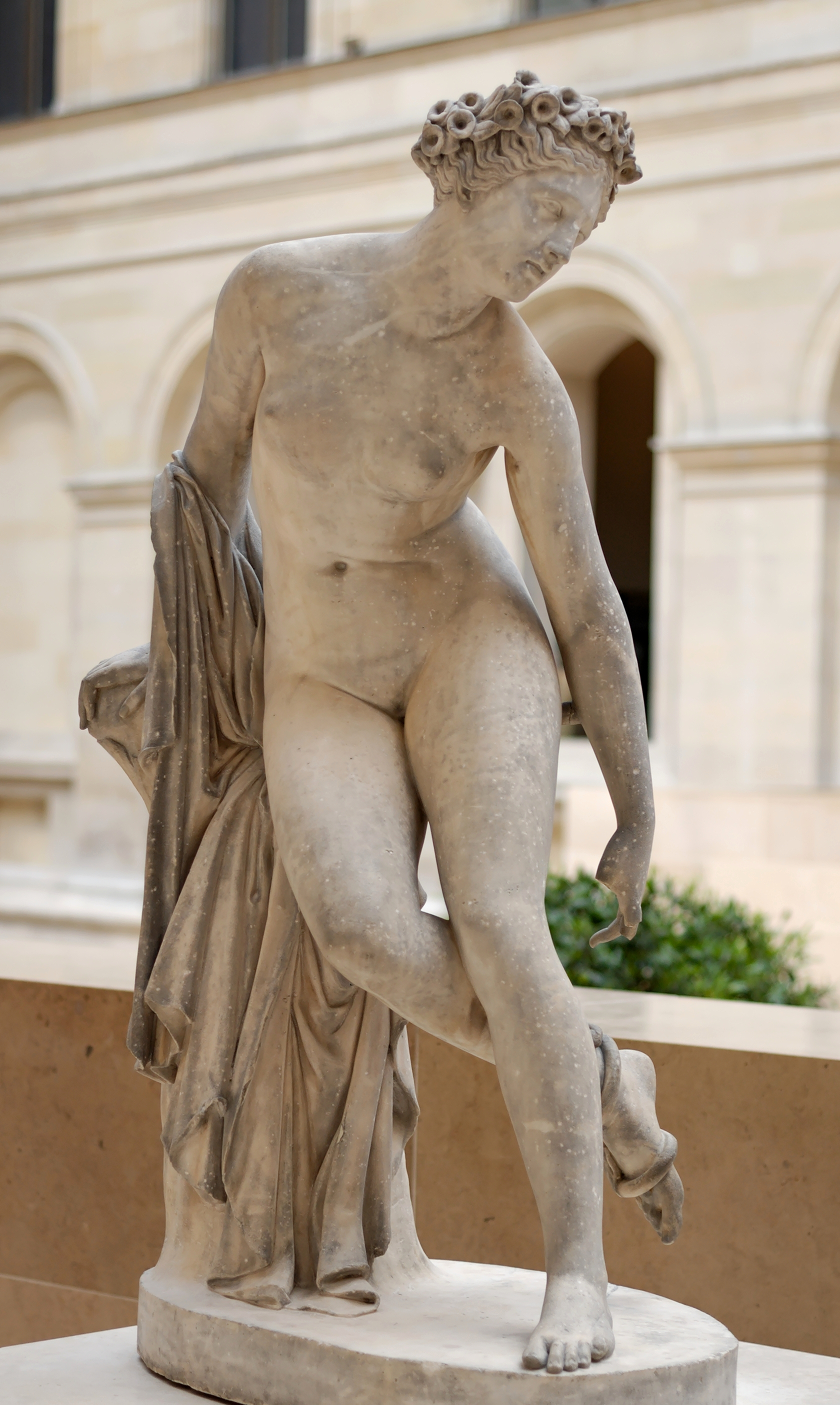 Dying Eurydice. Marble, made in Rome in 1822, exhibited at the Salon of 1824.